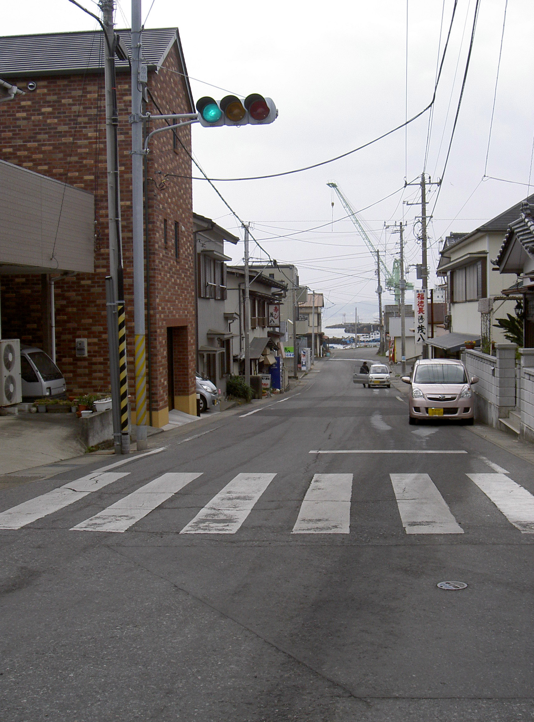 Chiba prefectural road route 249